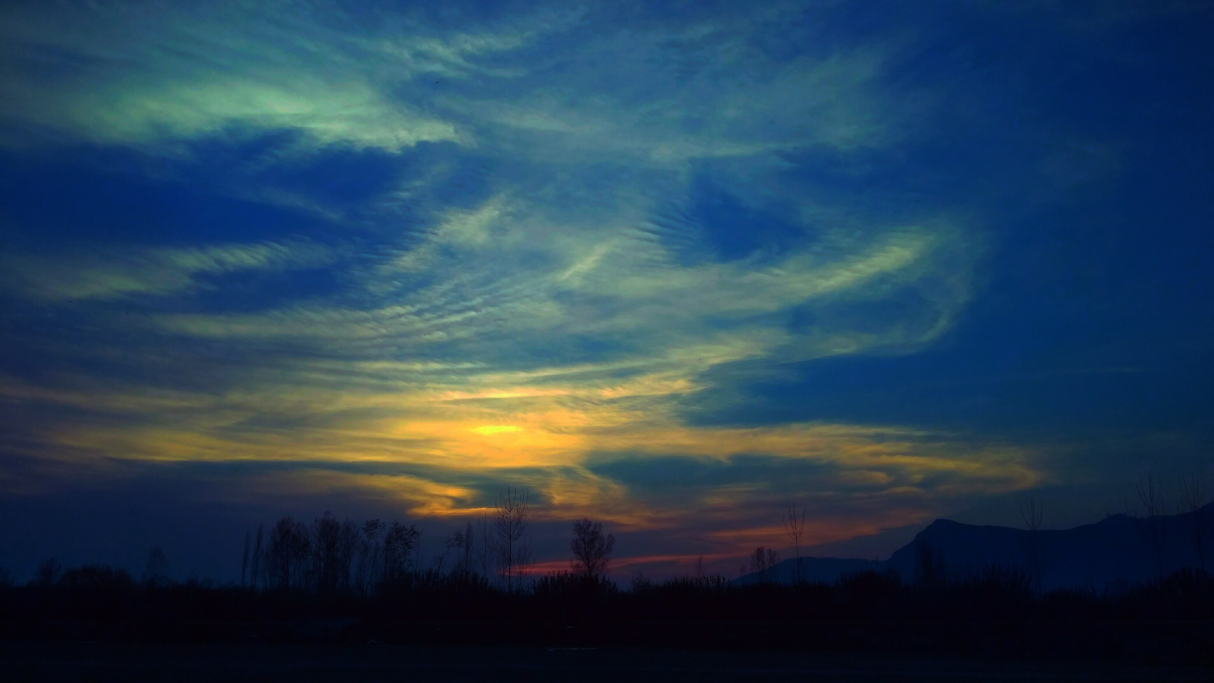 Aunset